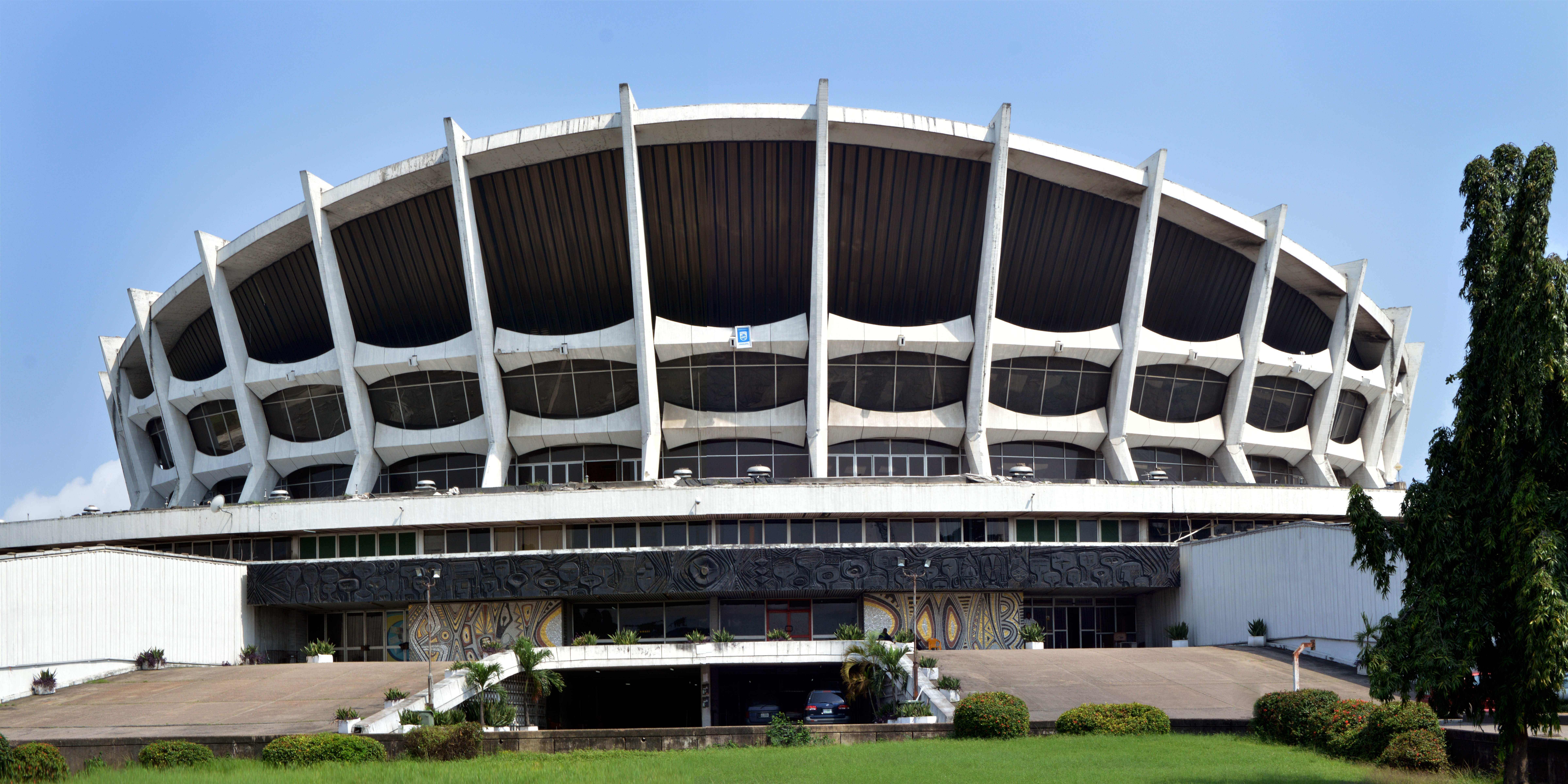 National Theater in Lagos State-Nigeria